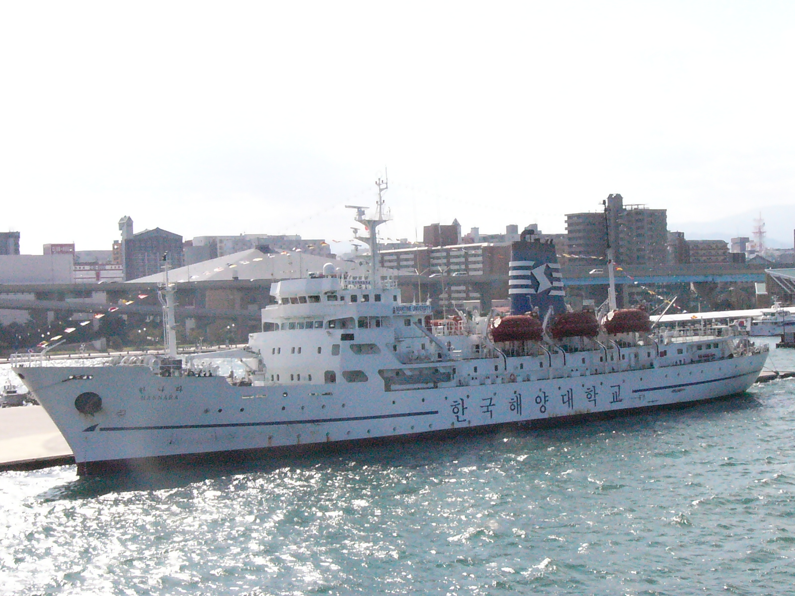 Training Ship Hannara of Korea Maritime University at Hakata Port. IMO 8874196